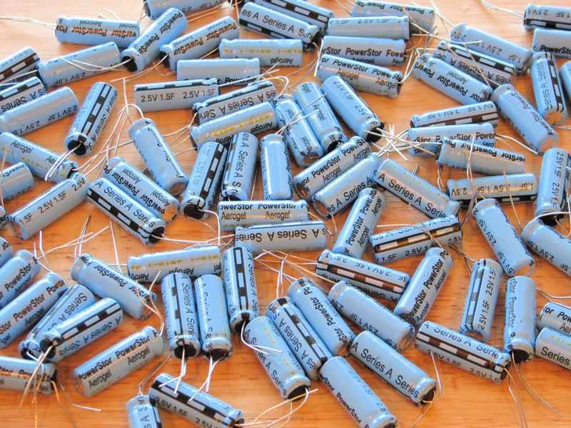 PowerStor Aerogel Series A supercapacitor by Eaton Electric. By 2020, Series A has been long superceded by different lines.